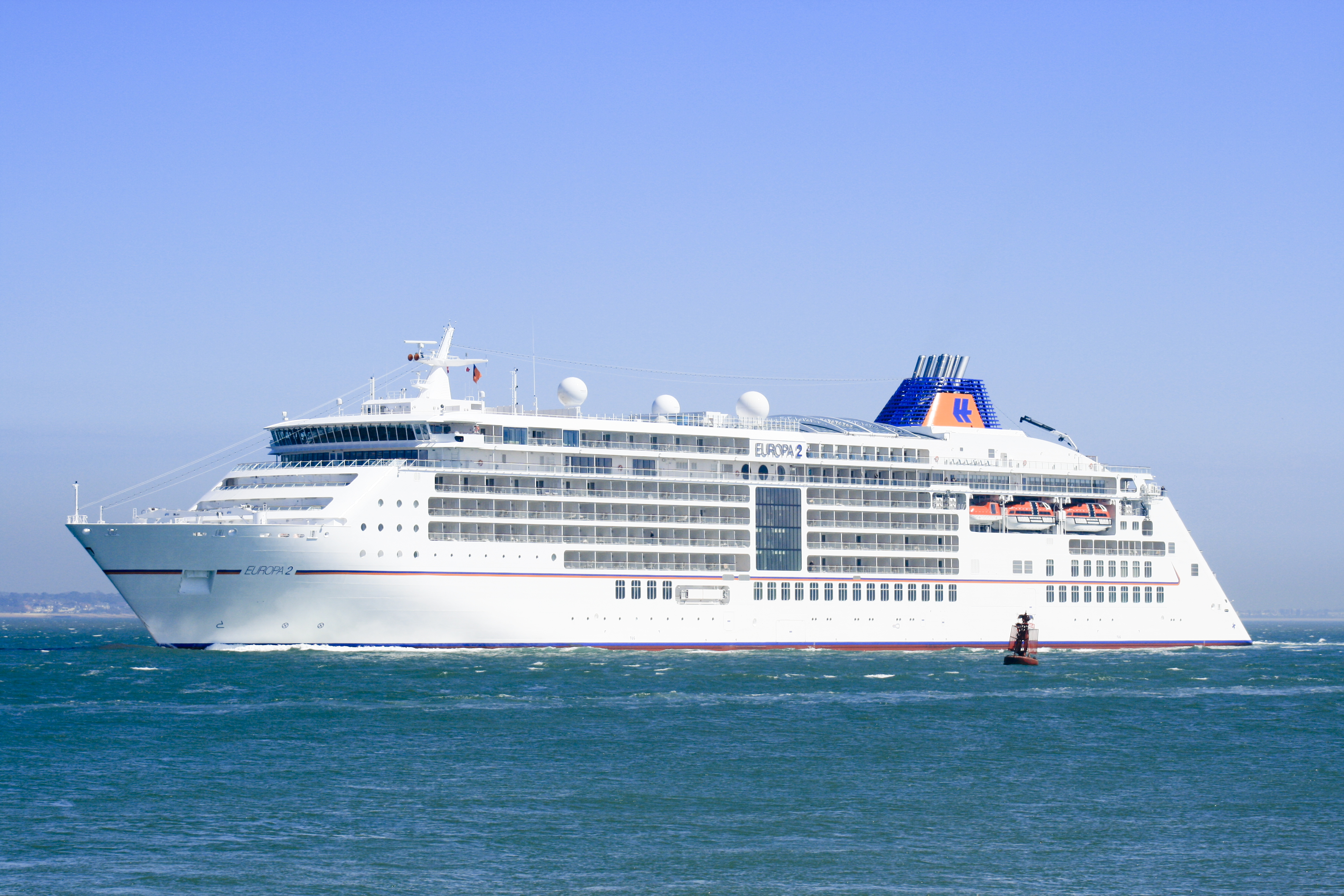 Hapag Lloyd cruise ship Europa 2 passing Black Jack buoy at the entrance to Southampton Water, while inbound to Southampton on 7 May 2013 on a crew shakedown voyage prior to her maiden sailing from Hamburg on 10 May 2013. Wikipedia editors are reminded that the copyright remains with the photographer, and that the terms of the Creative Commons (CC), Attribution (BY), Share Alike (SA) CC-BY-SA-3.0 that allow editors to reuse this image apply to Wikipedia editors also, as they do to other re-users of this image. Breaches of the licence terms are not only unlawful, but are also antisocial, in that breaches discourage photographers from making their images freely available to everyone without payment. Wikipedia re-users are also reminded of the license terms that derivatives of this image should not imply that the adaptation is endorsed or approved by the author or copyright holder. Neither should derivatives be presented as the creation of the author or copyright holder, while clearly stating that the adaptation is a derivative of the original.